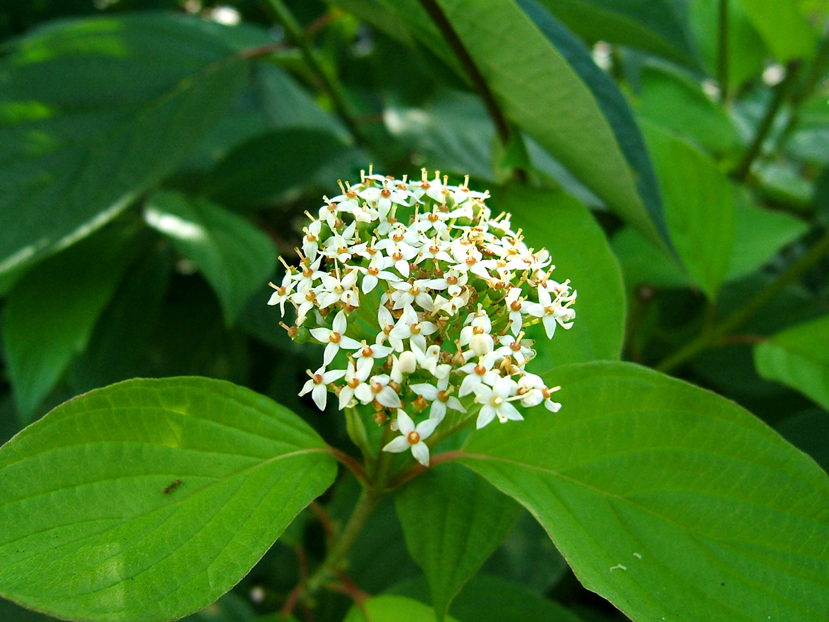 Red Osier Dogwood Hornjoserbsce: Běły drěn